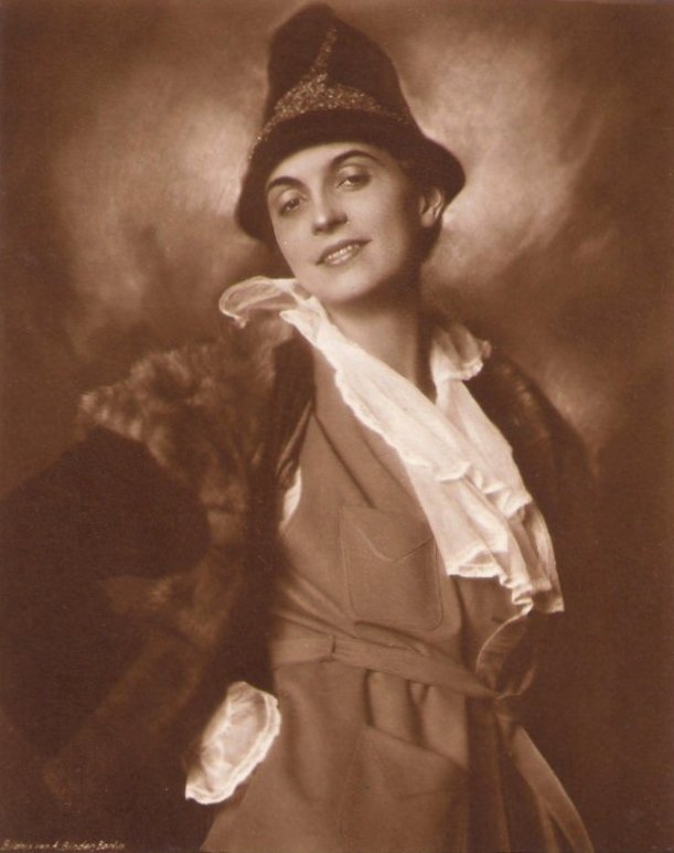 Erna Morena